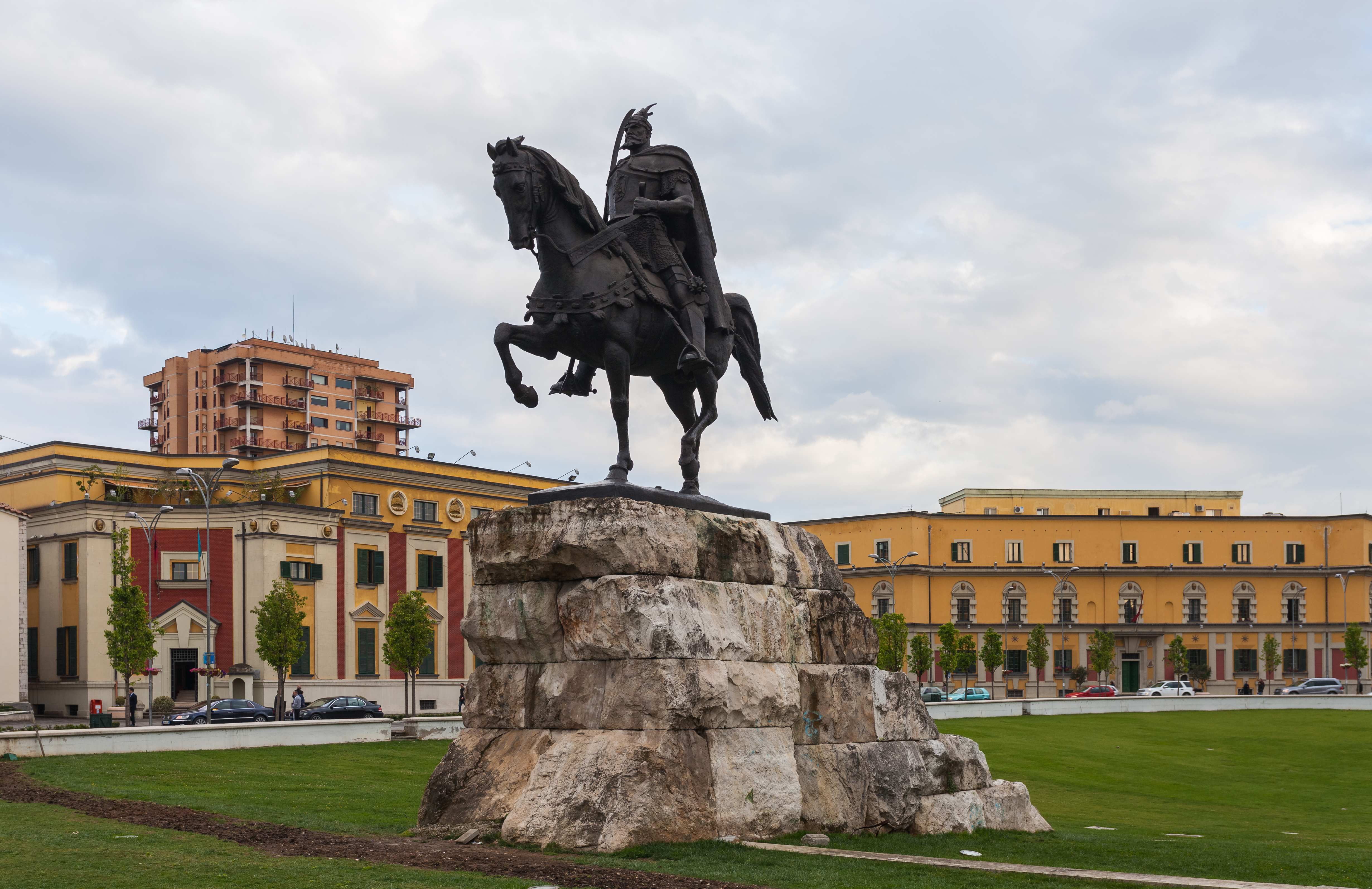 Skanderbeg Monument, Tirana, Albania